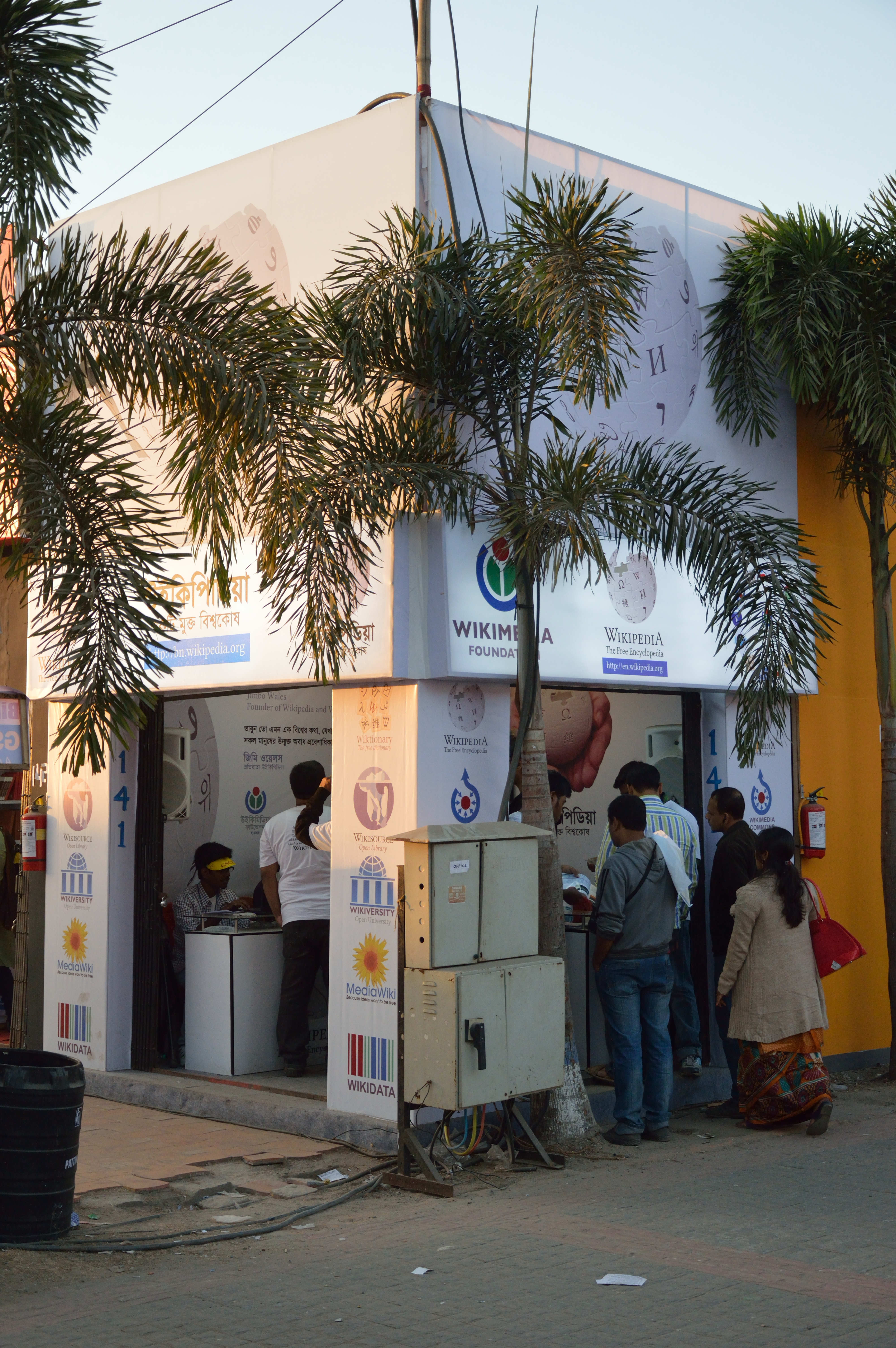 Photographed during the 38th International Kolkata Book Fair, Milan Mela Complex , Kolkata.